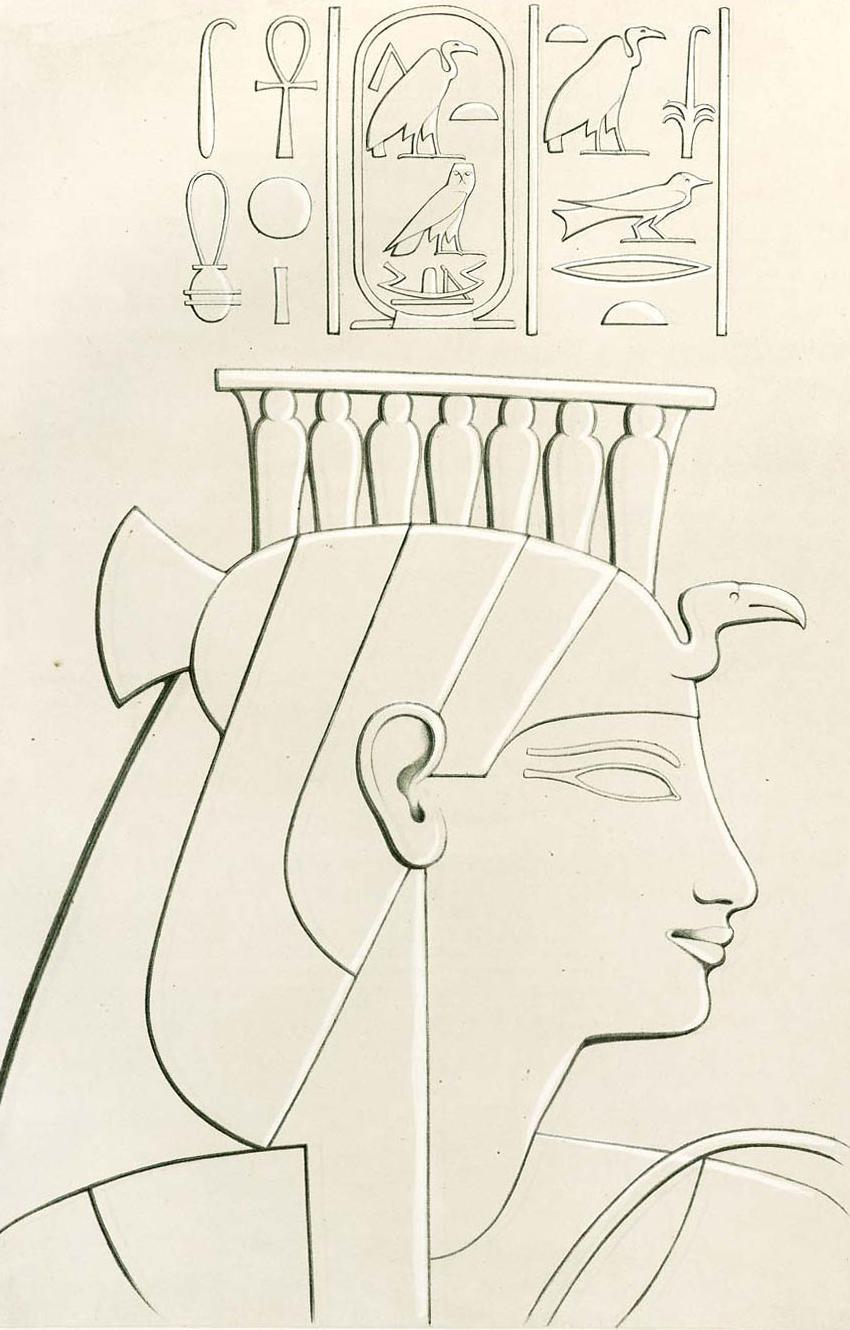 Queen Mutemwiya of the 18th dynasty of Ancient Egypt. Mother of Amenhotep III. From Luxor.